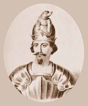 Yaropolk II, first Grand Prince of Kiev